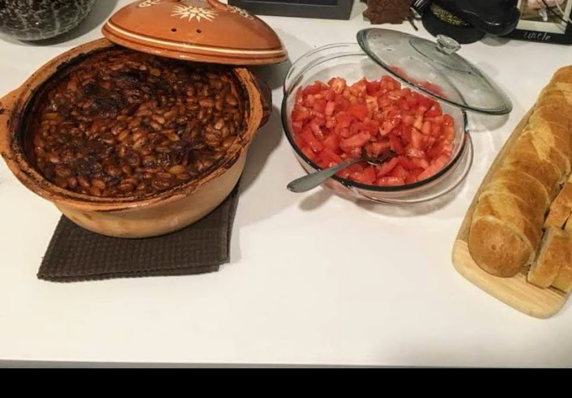 Traditional Macedonian Meal